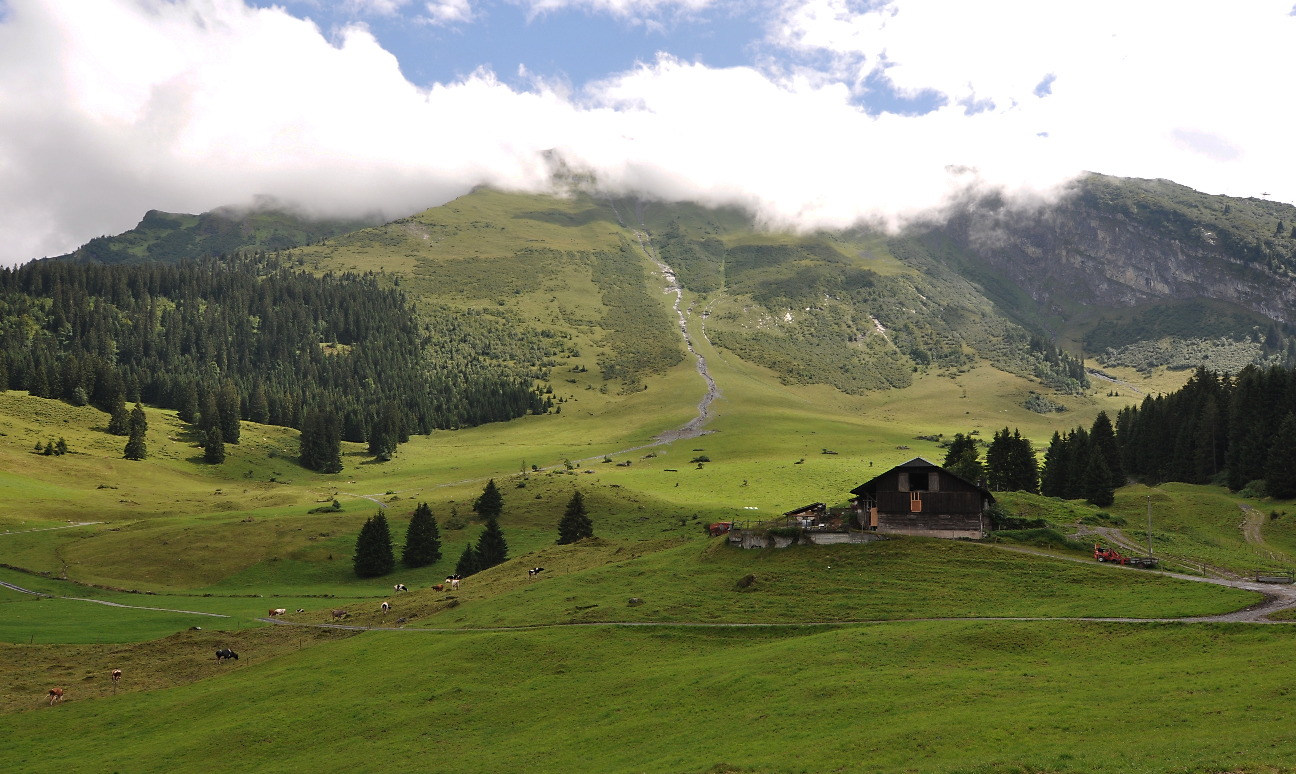 The Eastern part of the Gerschnialp above Engelberg.